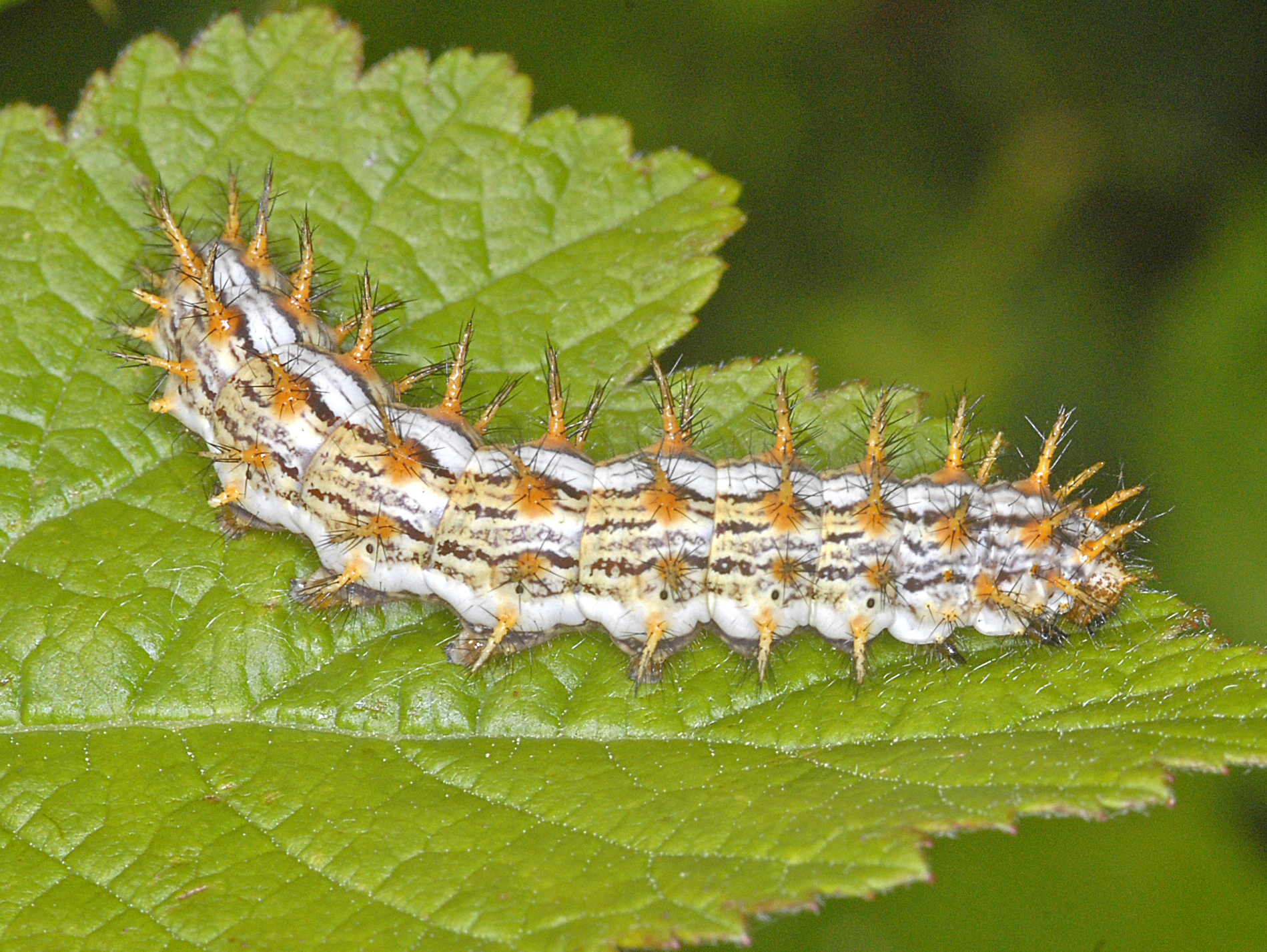 Caterpillar of "Brenthis ino". Val Noci, Genova, Italy